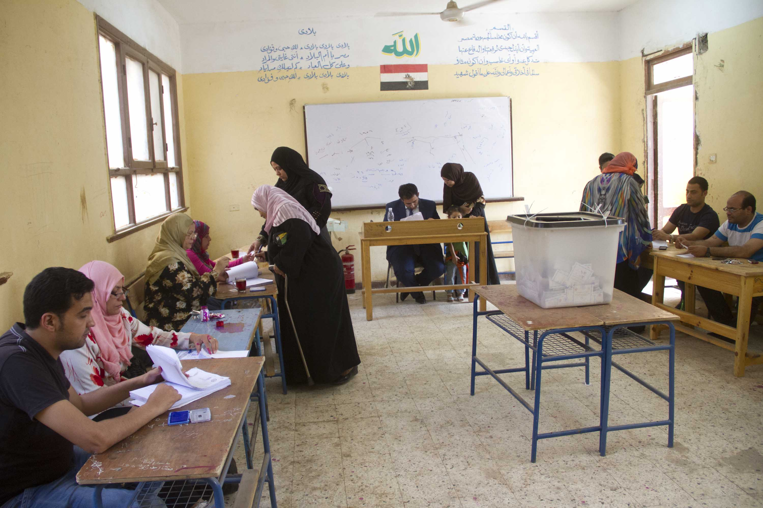 Original description: "A polling station in Cairo, May 27, 2014. (Hamada Elrasam /VOA)"